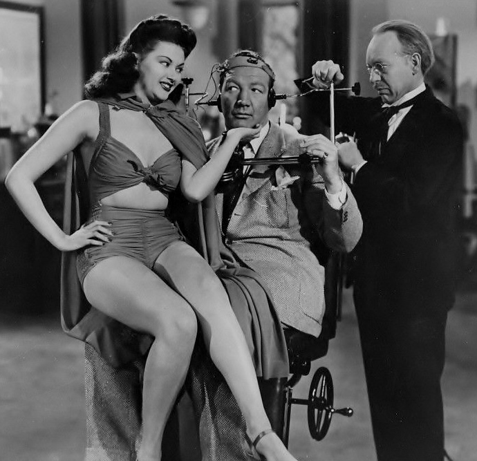 Cropped photo of Yvonne De Carlo, Maxie Rosenbloom, and an actor in the film Harvard, Here I Come (1941).